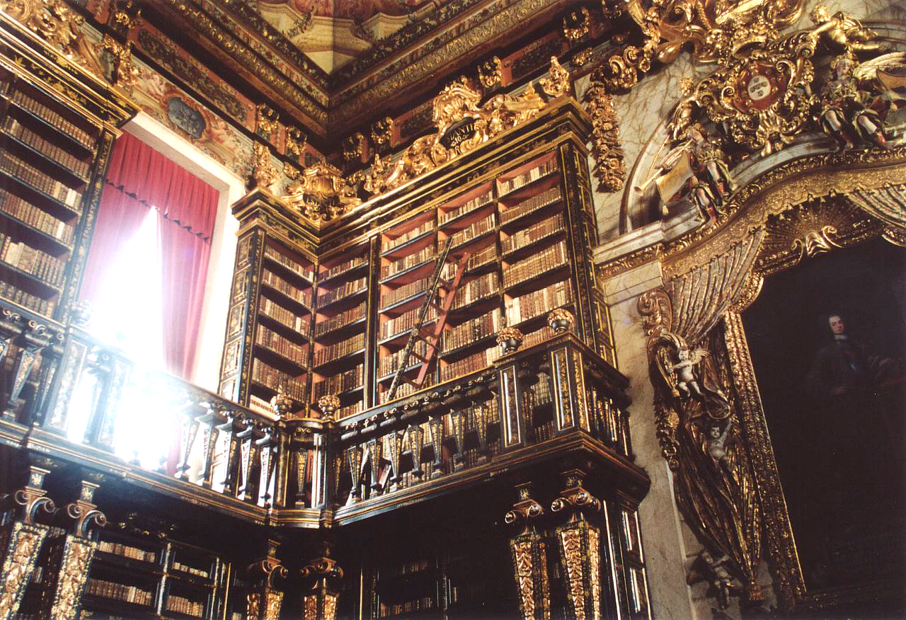 Baroque interior of Coimbra University Library, Portugal